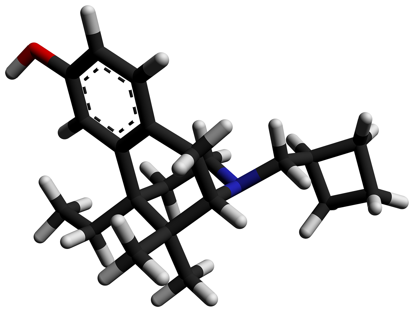 Cogazocine 3D stick model